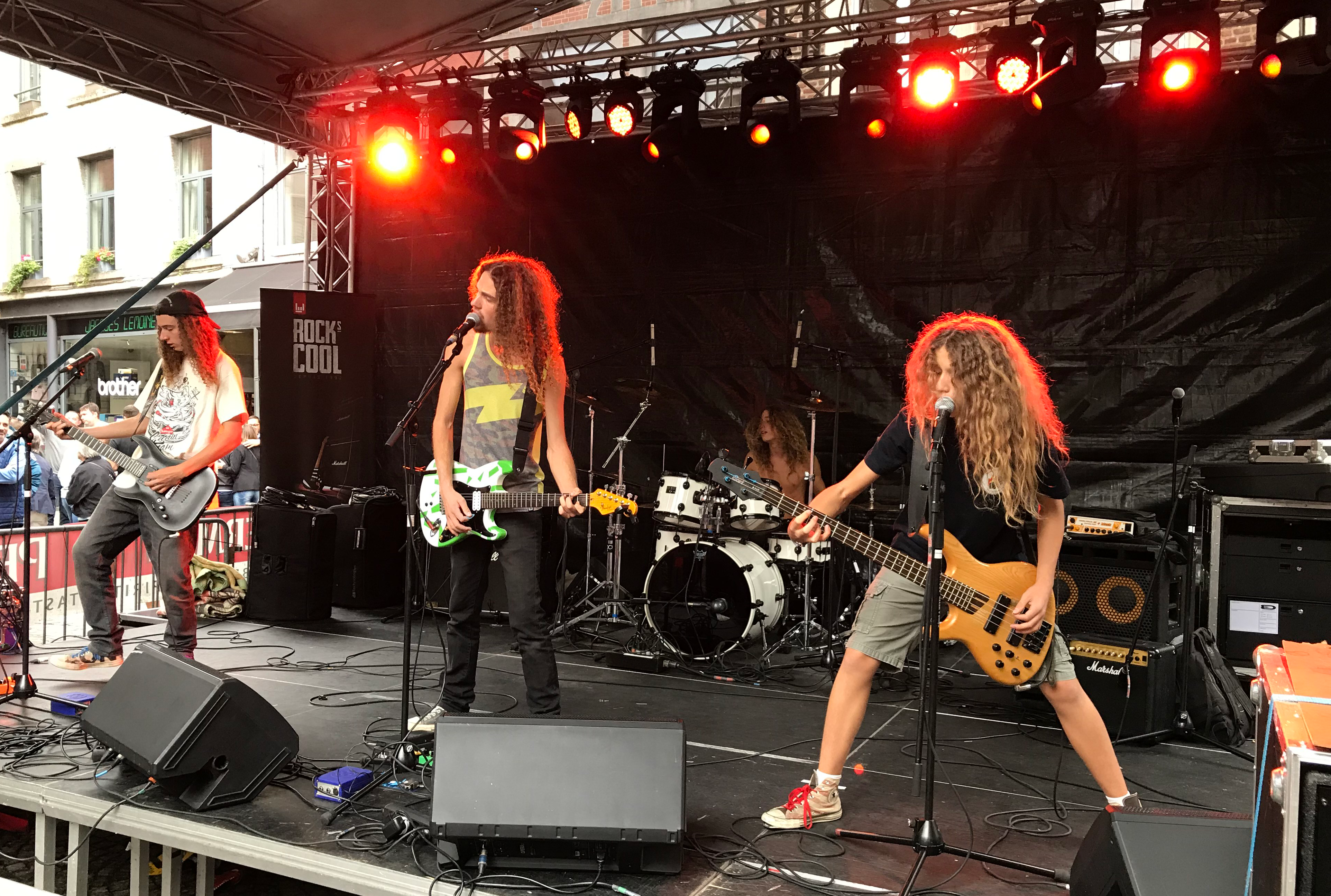 An image taken in Namur, Belgium during the Fêtes de Wallonie 2019 during Mixed Up Everything's first festival appearance in Belgium.